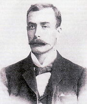 Frank Brettell, manager of Plymouth Argyle F.C. between 1903 and 1905.